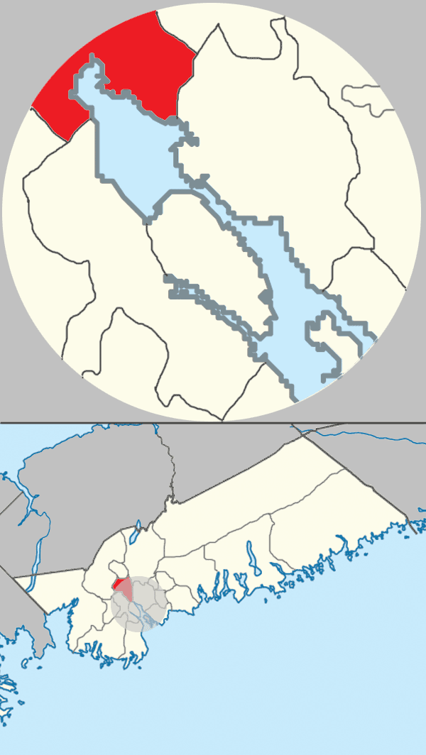 Updated map of Bedford planning area in Halifax, Nova Scotia to standard colours, higher resolution, using